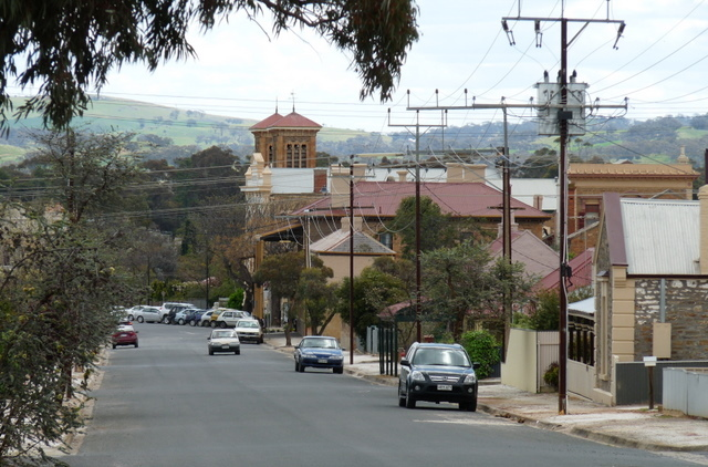 The view along the road from the Anglican Christ church, west towards the former Baptist church and the commercial centre of Kapunda, South Australia